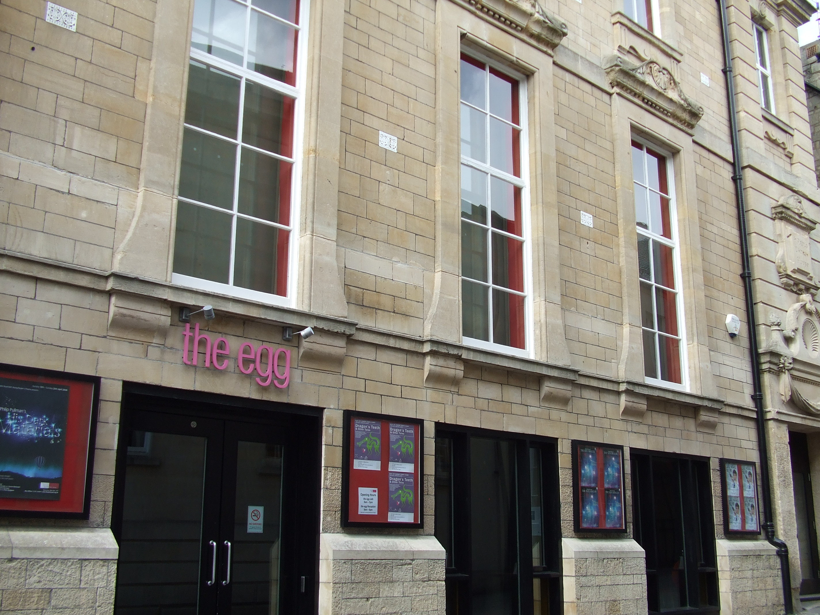 The Egg Theatre (part of Theatre Royal) Bath